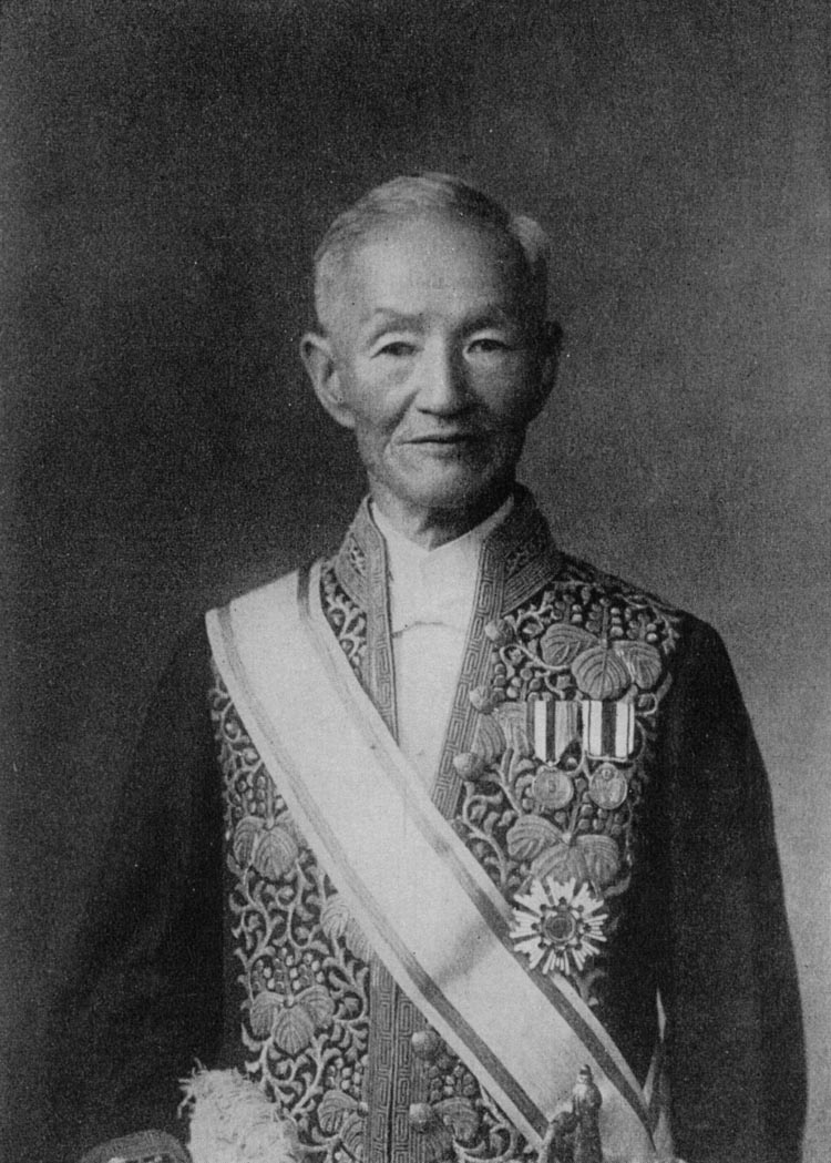 Kōnosuke Nakamura, President of the Tokyo Institute of Technology.